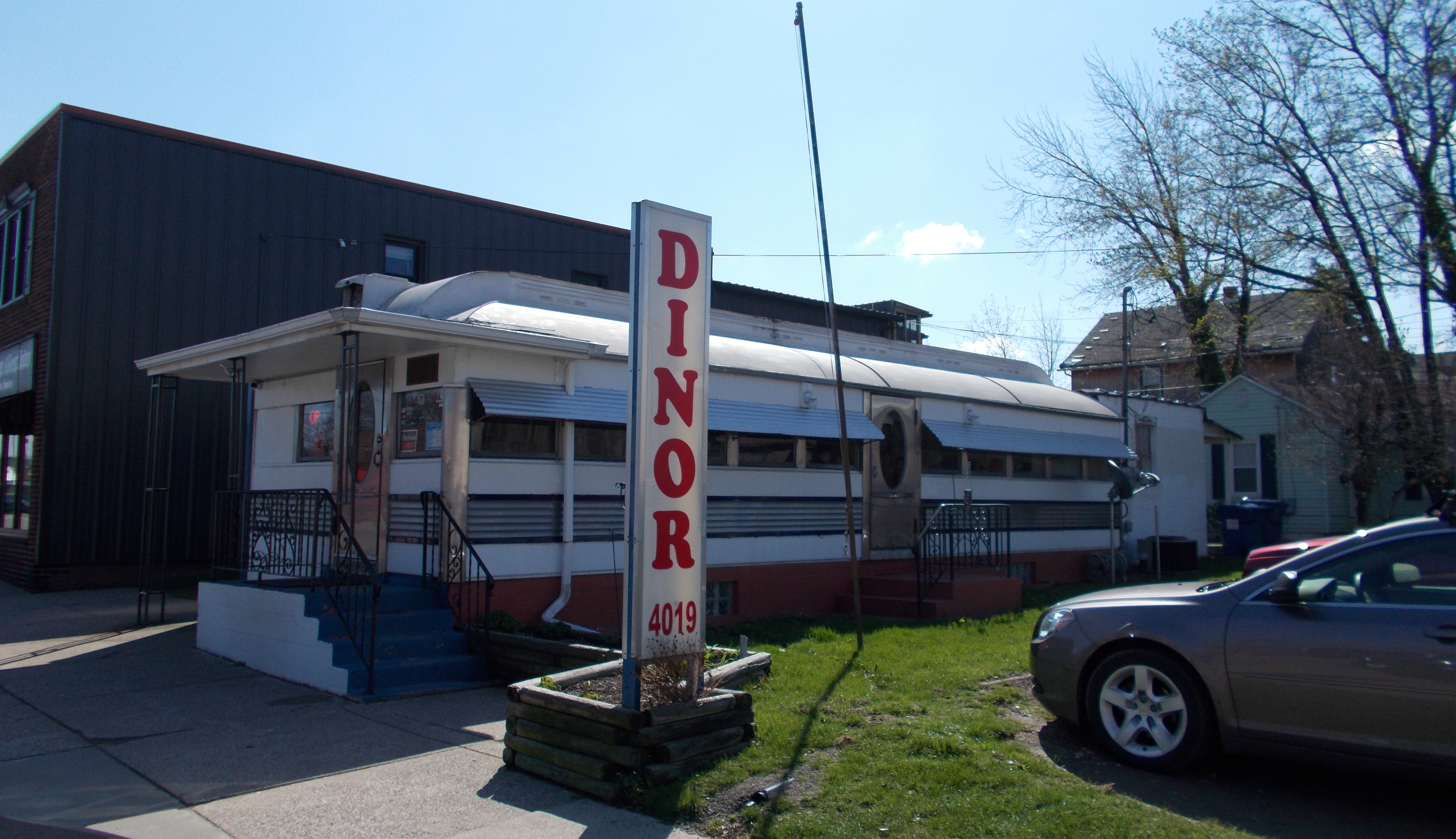 Park Dinor, Lawrence Park Township, April 2013